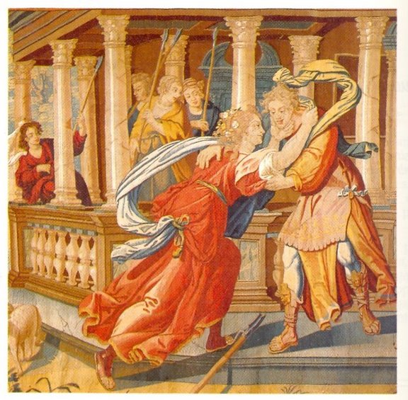 Tapestry of XVII. century